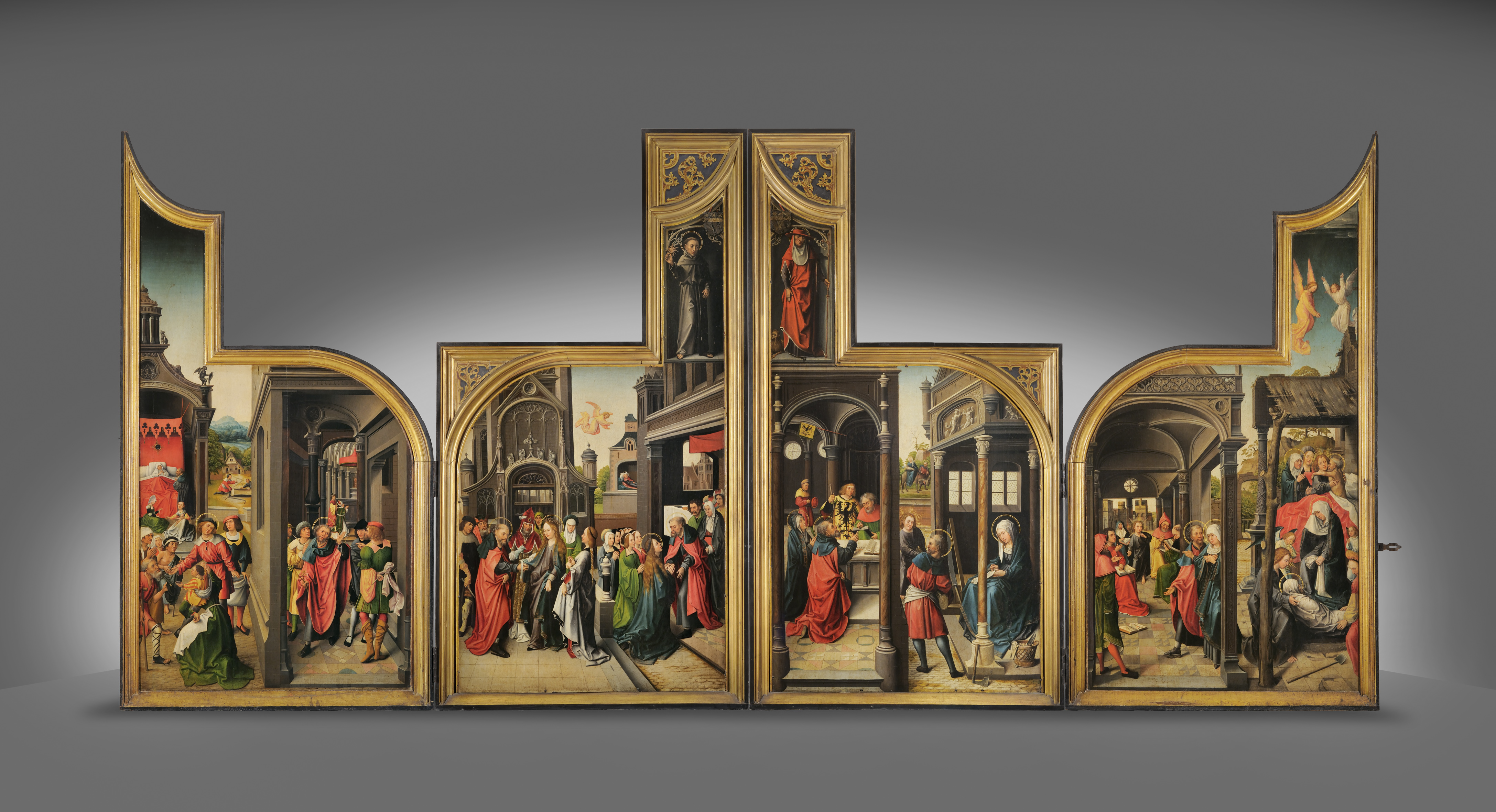 Retable de Saluces. Volets peints (intérieur)